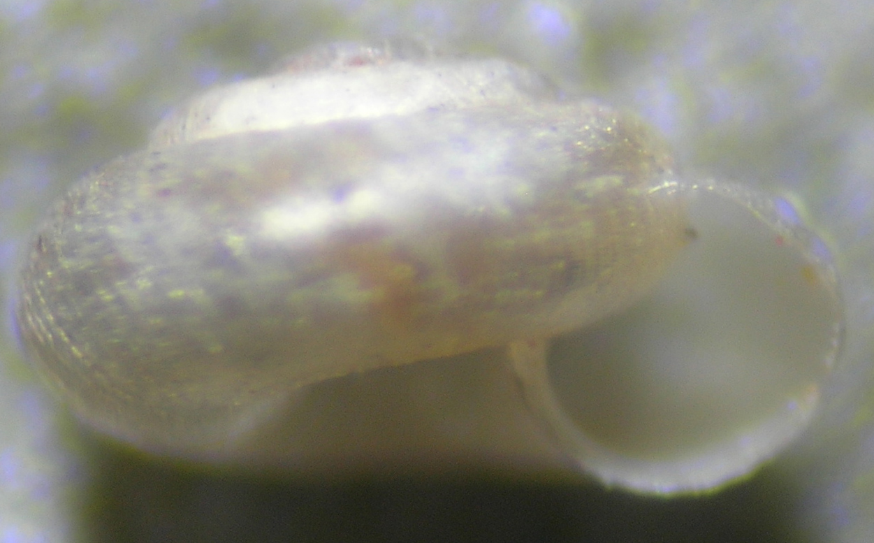 Front view of Punctum minutissimum